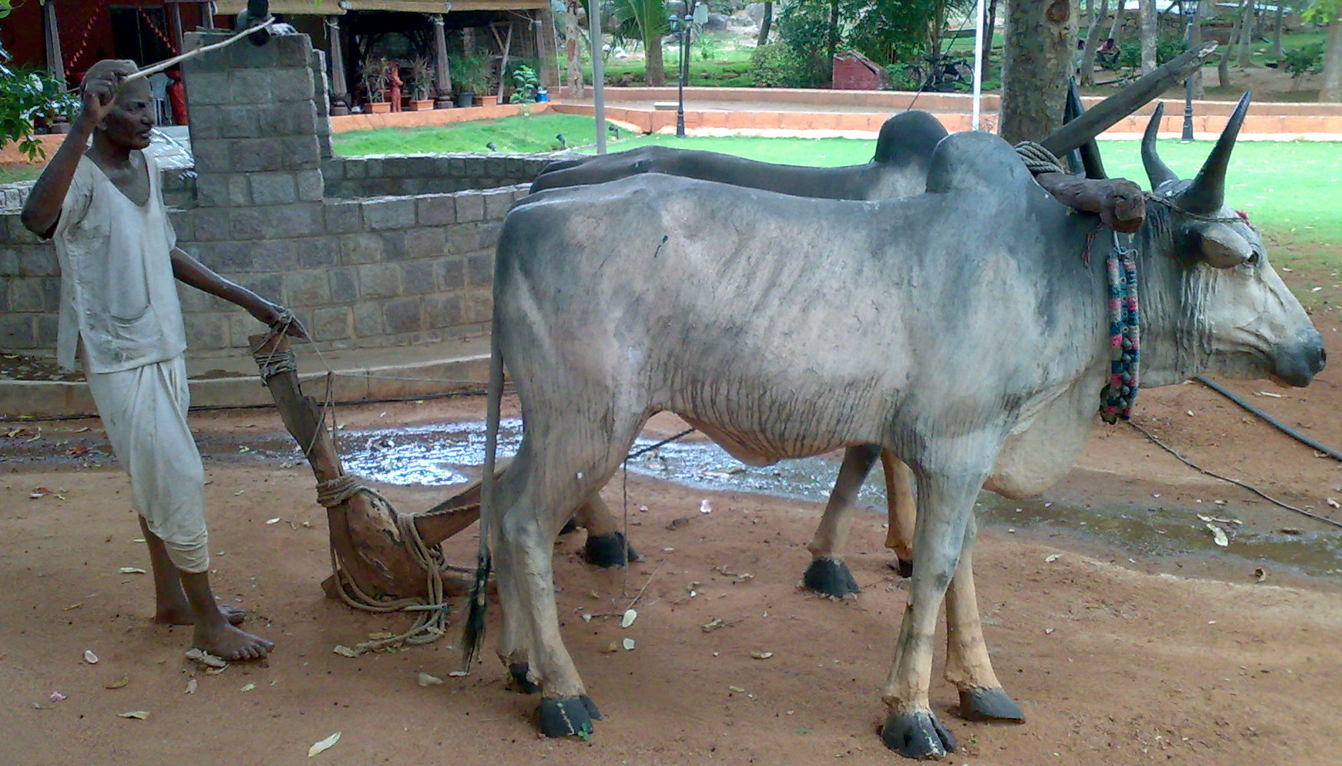 An image Showing a farmer tilling the land